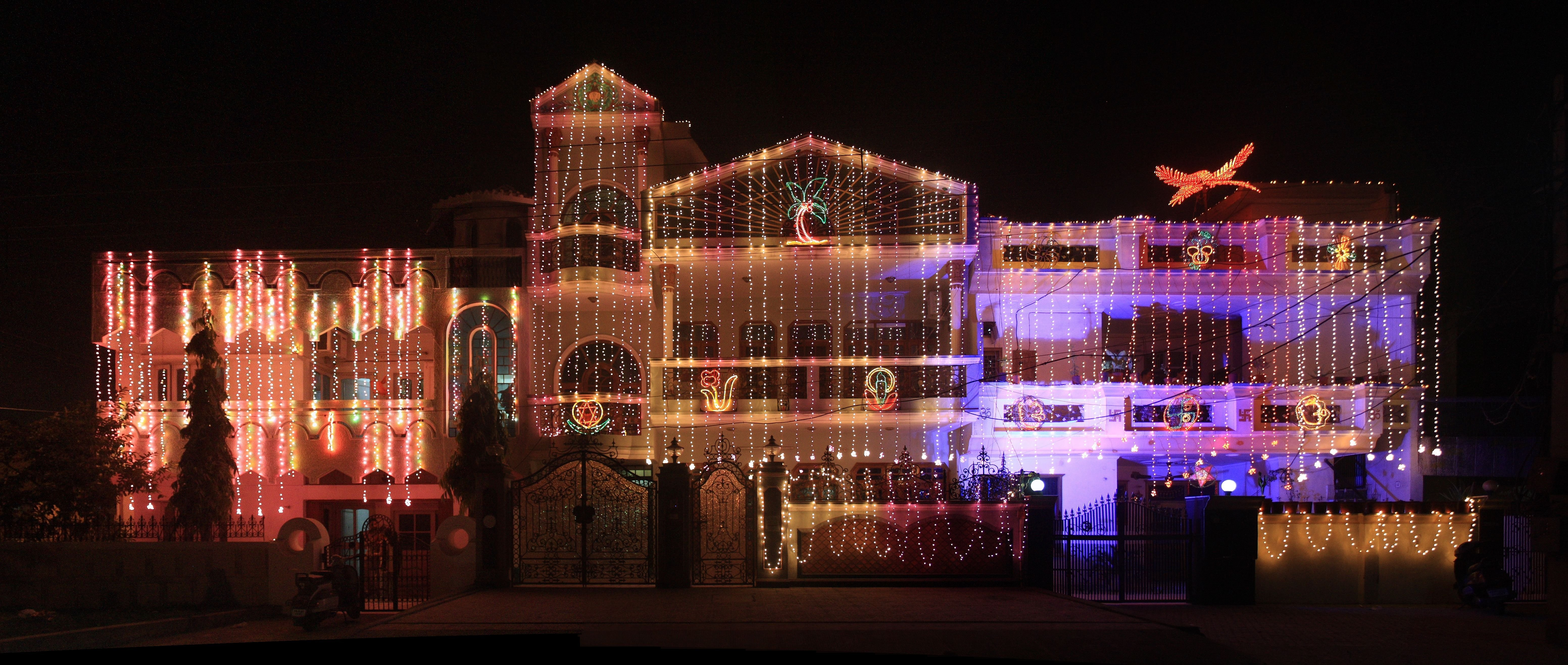 House with lights during Diwali festival. Taken in Sector 13, Karnal, Haryana, Inida. Stitched Panorama from 3 photos.